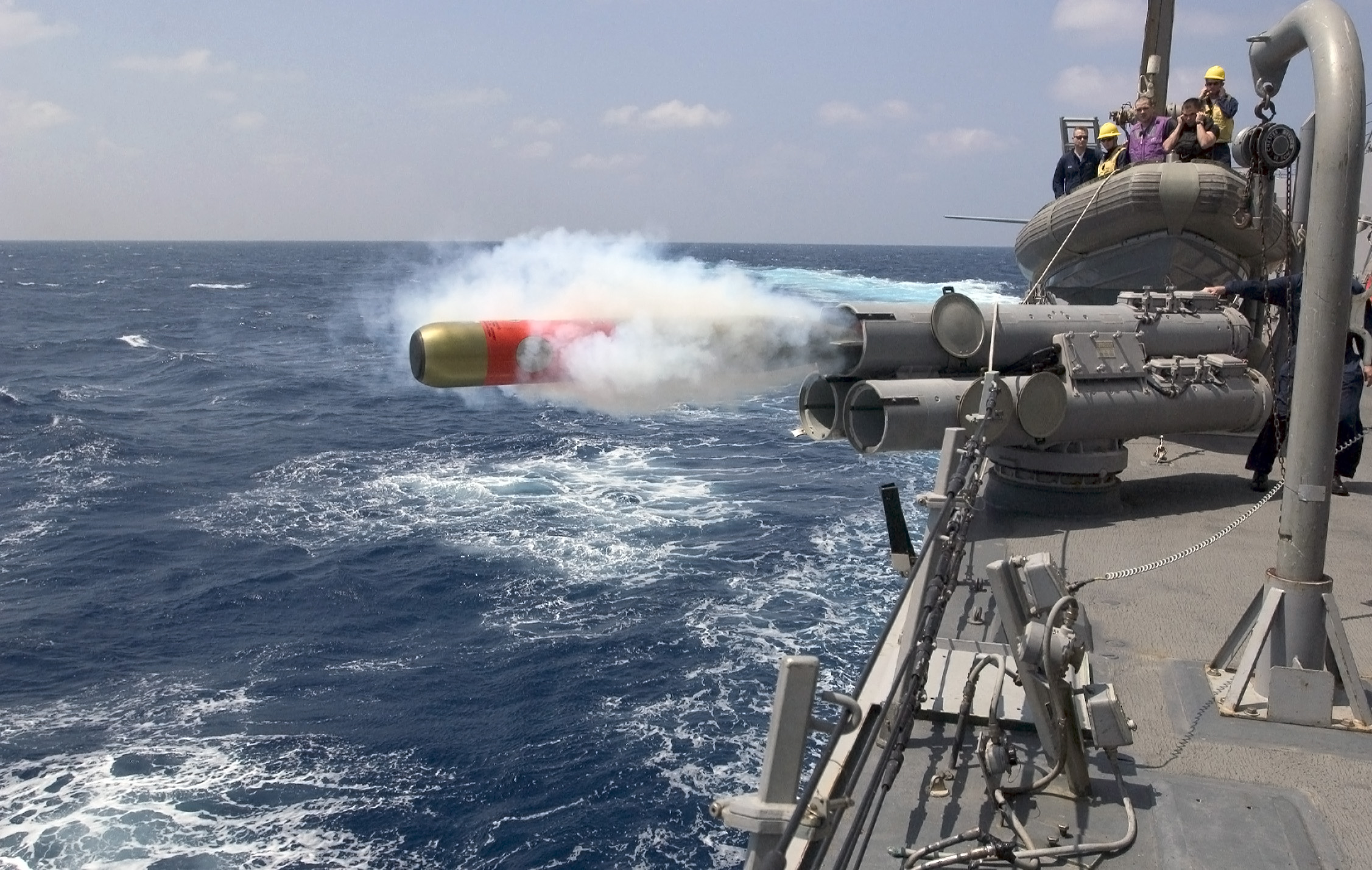 PHILIPPINE SEA (April 12, 2007) - An MK-46 exercise torpedo is launched from the deck of an Arleigh Burke-class guided-missile destroyer; the USS Mustin (DDG 89), during a torpedo launch exercise in the Philippine sea.